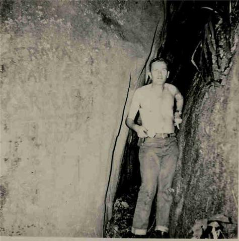 Hellmuth Straka en la Cueva Caracas, Guinea Ecuatorial, en 1967